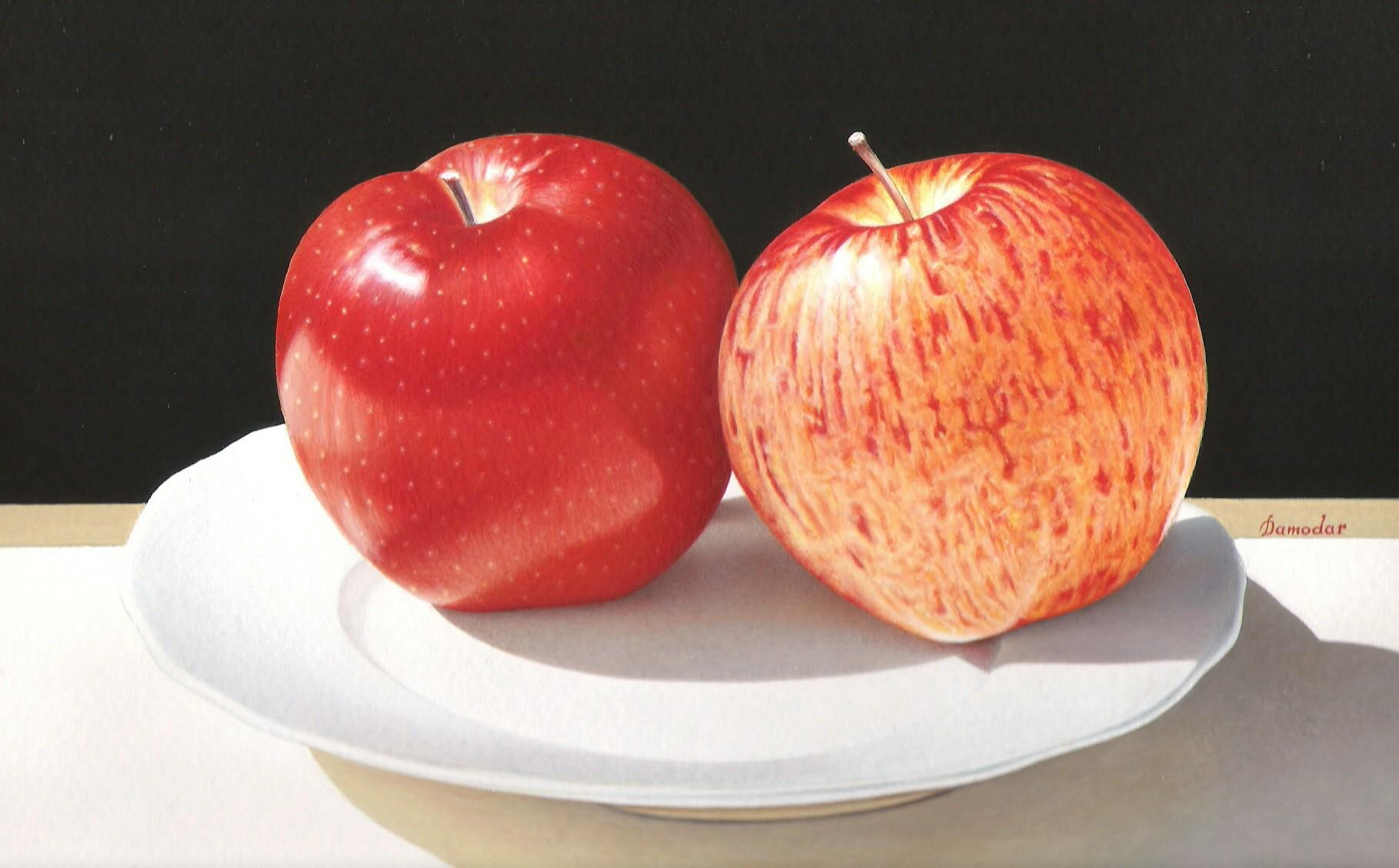 Two apples is a Botanical illustration , created by artist Damodar lal gurjar, tempera on paper